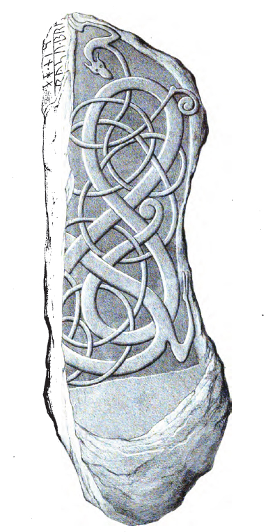 The runestone Sö 92. The inscription reads ... * lit * raisa * st... ... rysu * br(o)... * sin * ha... ... austr * bali ... In English "... had the stone raised ... Rysja(?), his brother. He ... east. Balli ..."